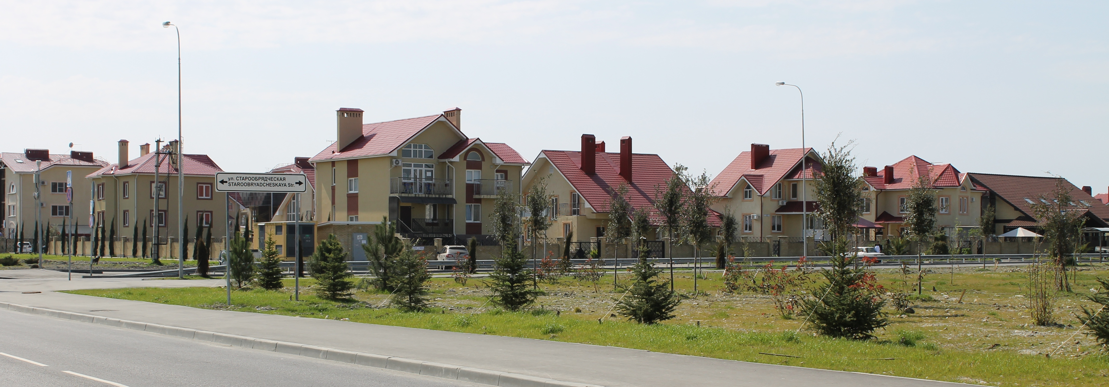 The settlement Nekrasovsky in the Imeretinskaya Valley. Adler district of the city of Sochi.